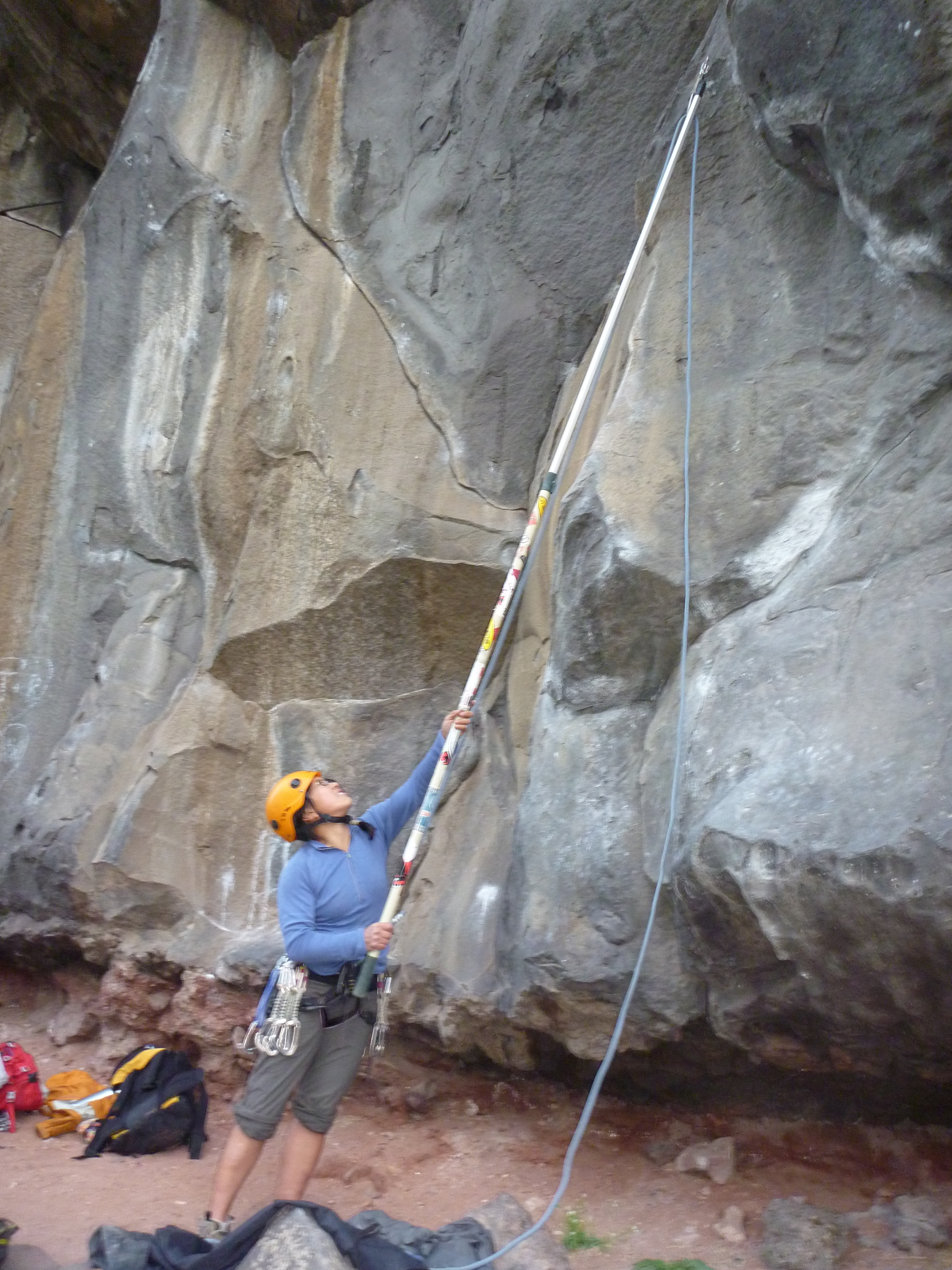 Use of stick clip